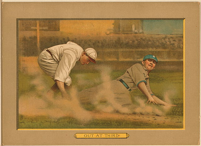 1911 Turkey Red Cabinets (T3) "Out at Third" Checklist